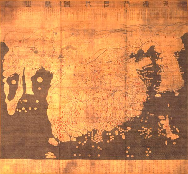 Kangnido map (1402). The later Honkōji version of the map is available here: GeneralMapOfDistancesAndHistoricCapitals.jpg at a higher resolution.